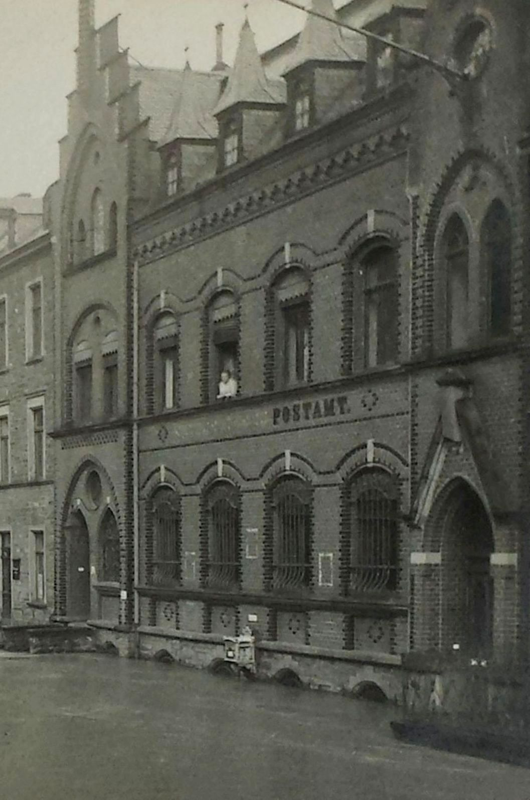 1920 Old post office in the Ravenéstraße 22 in Cochem